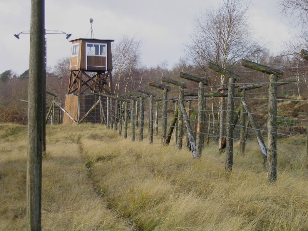 Frøslev Camp was built by the Germans in Nazi-occupied Denmark during World War II (1940 - 1945). From this camp, prisoners were send to the KZ camps in the rest of Europe. Fence and guard tower.